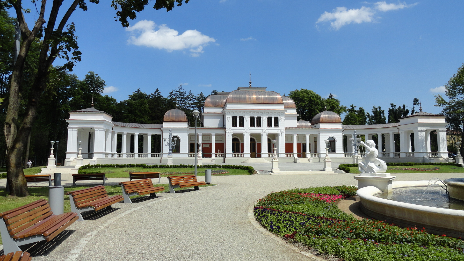 The renovated building of the former Casino (Central Park, Cluj, 2012)